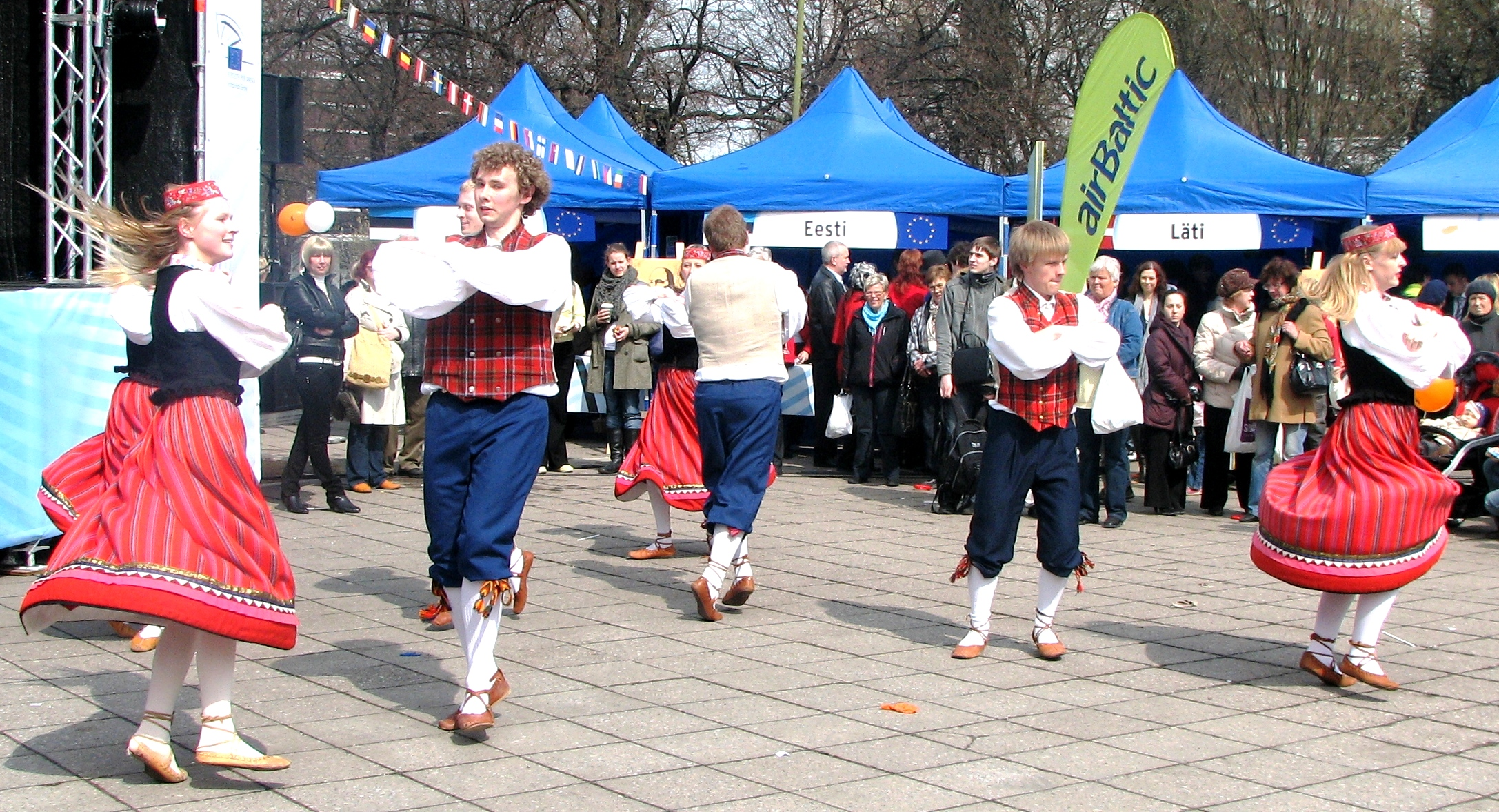 Young people dancing national dance in national costumes